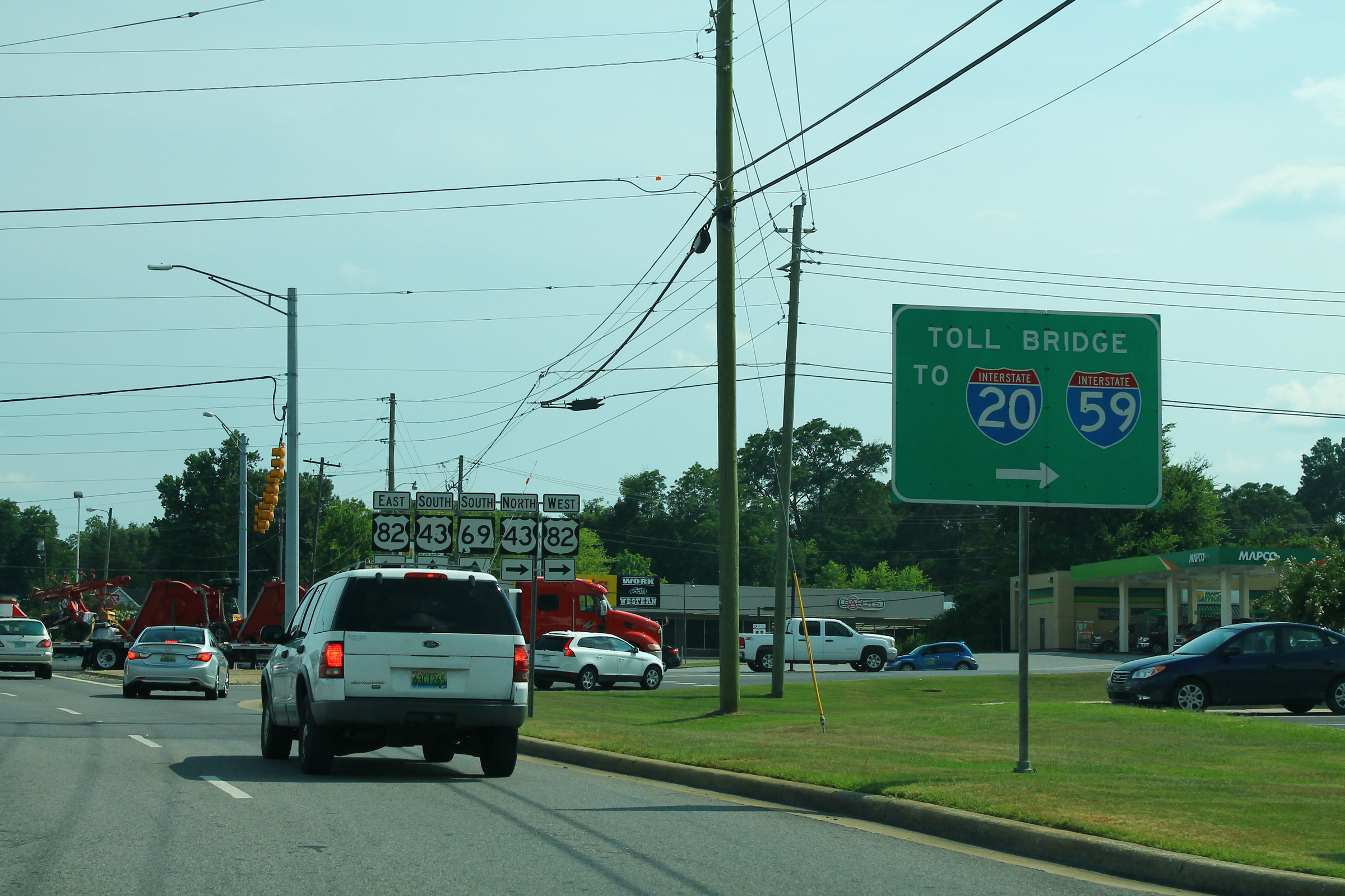 AL69sRoad-TollSignToInt20Int59-US82ewUS43ns-Tuscaloosa